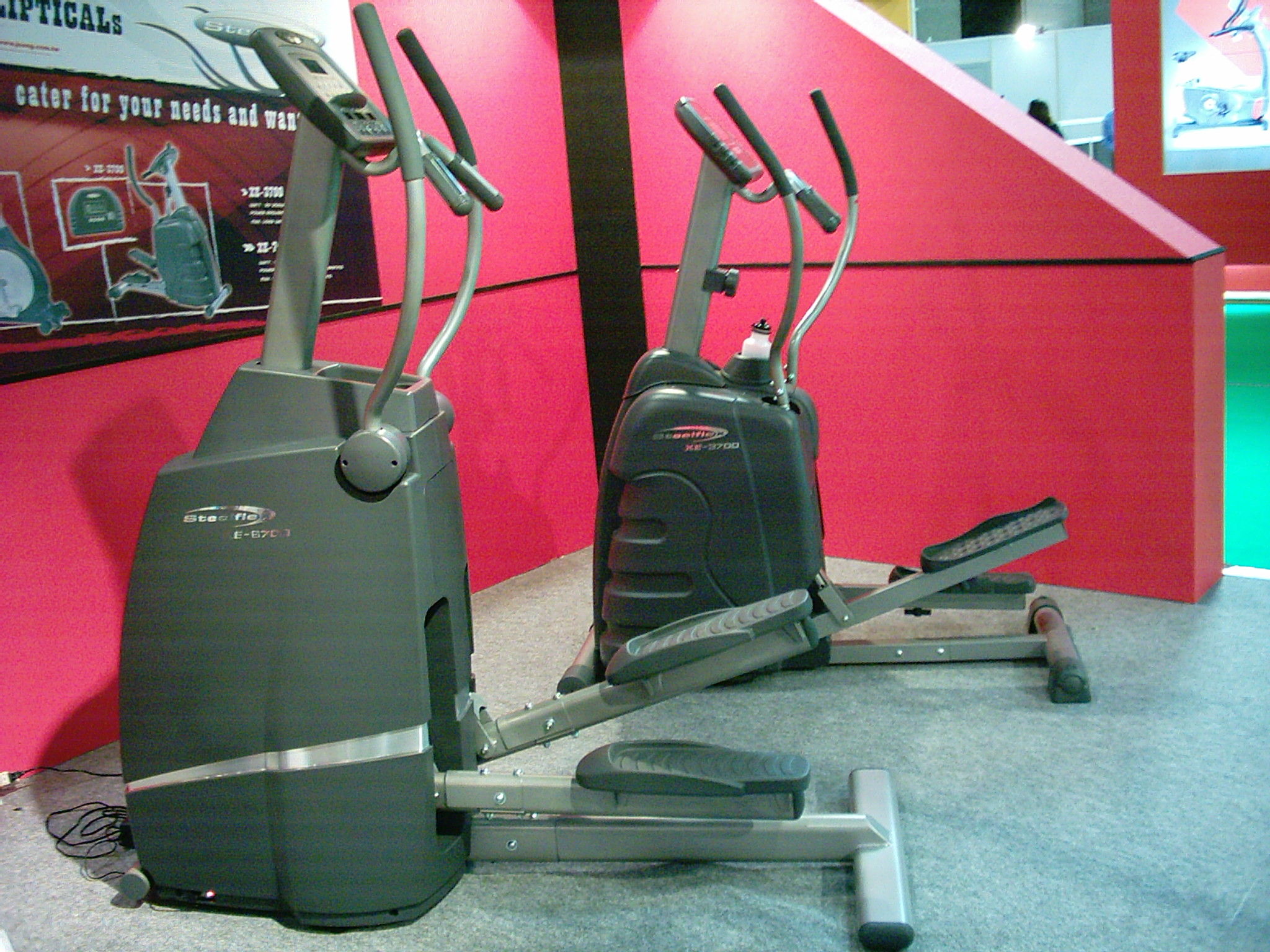 XE6700 (front) and XE3700 (back) elliptical trainers by Joong Chenn Industrial @ TaiSPO 2006.